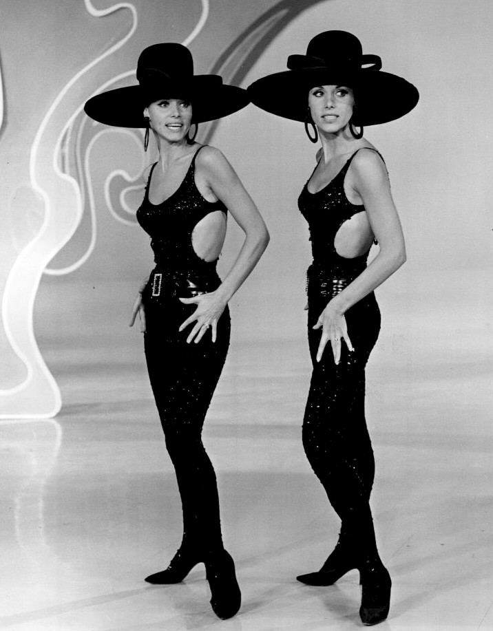 Photo of the Kessler Twins performing on The Danny Kaye Show.